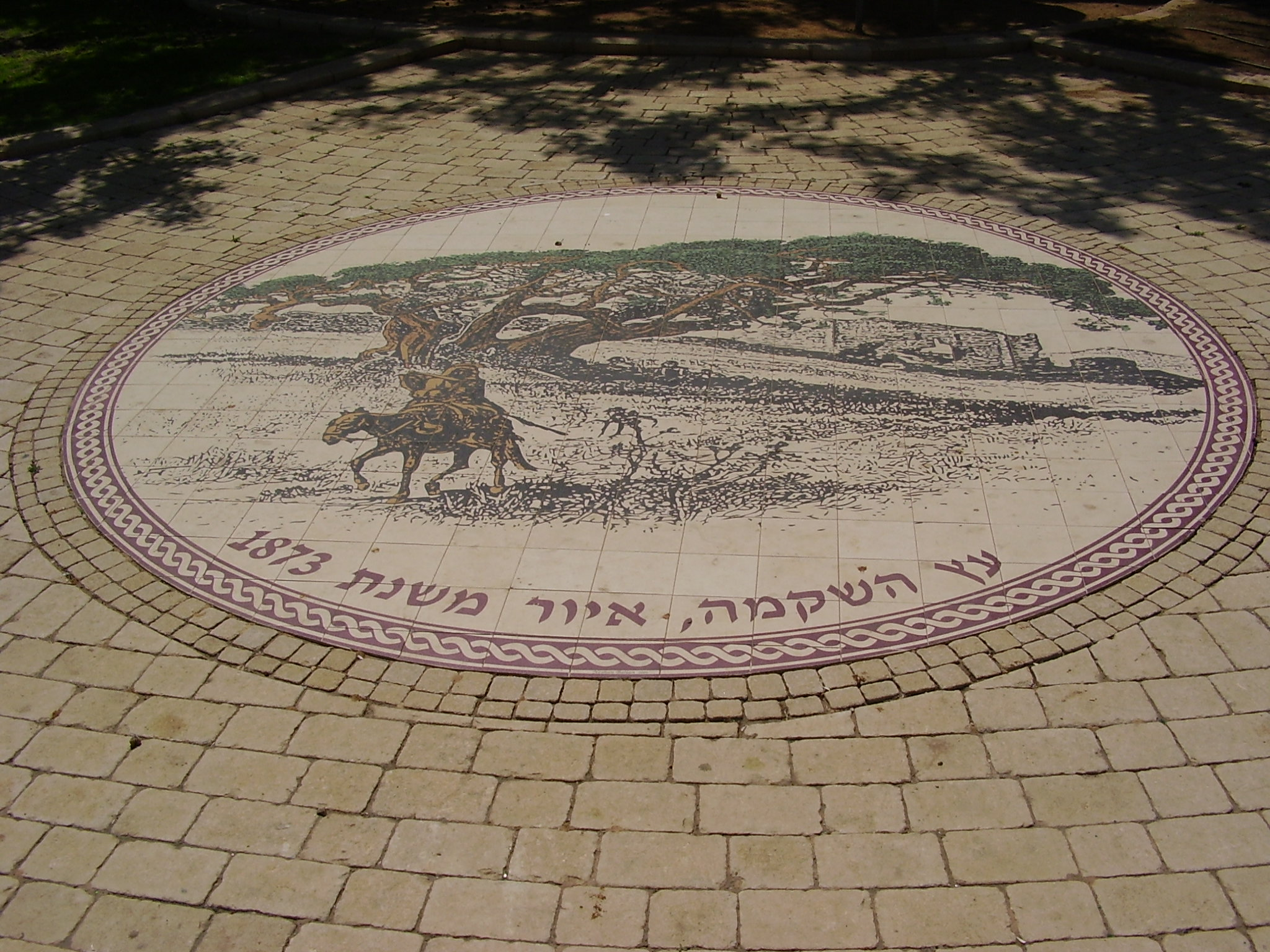 Painting (1873) of the old sycamore tree in Netanya, Israel